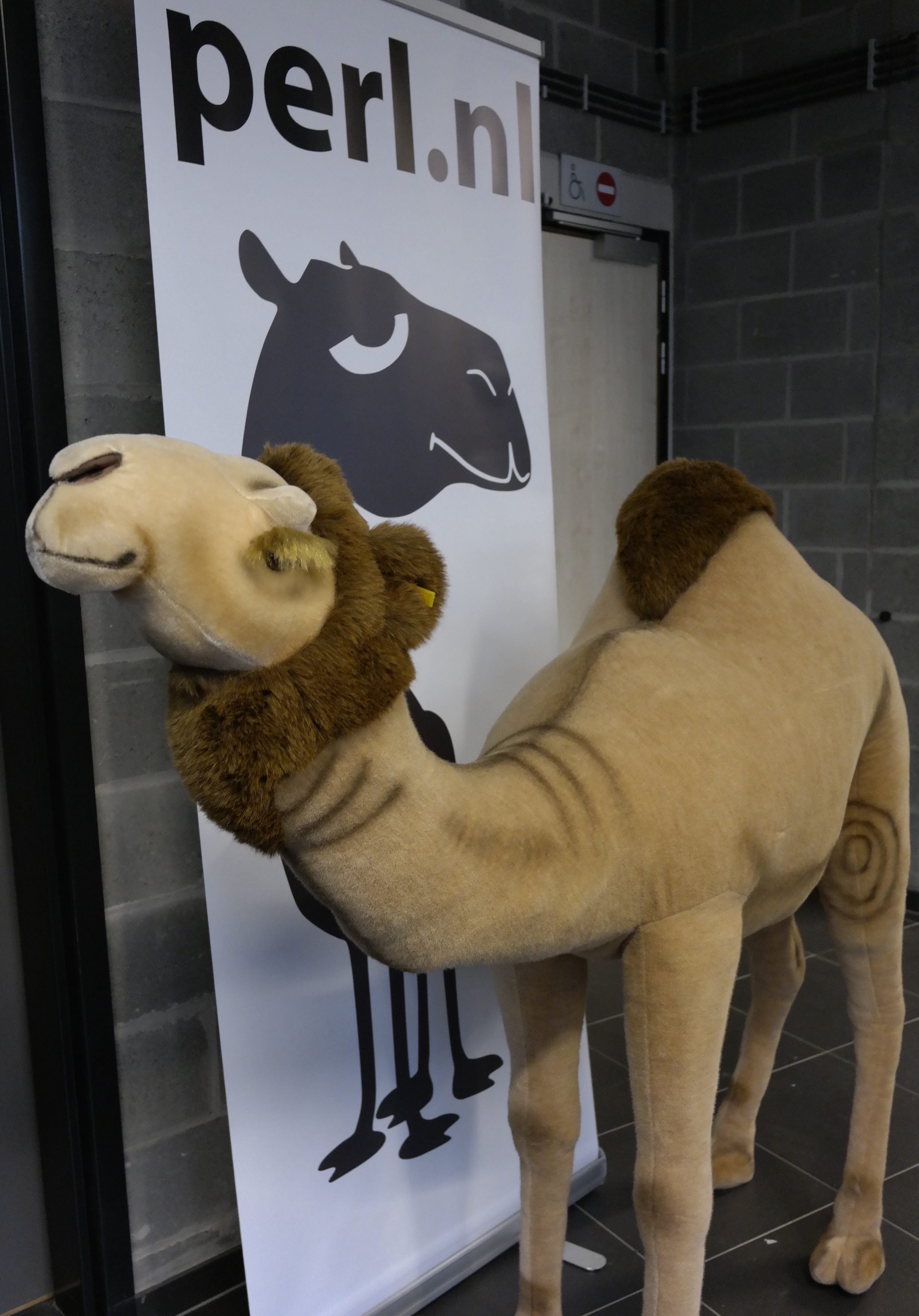 Camel, the symbol of Perl, FOSDEM, Brussels